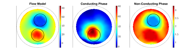 Multi-frequency decomposes a three phase flow into its components